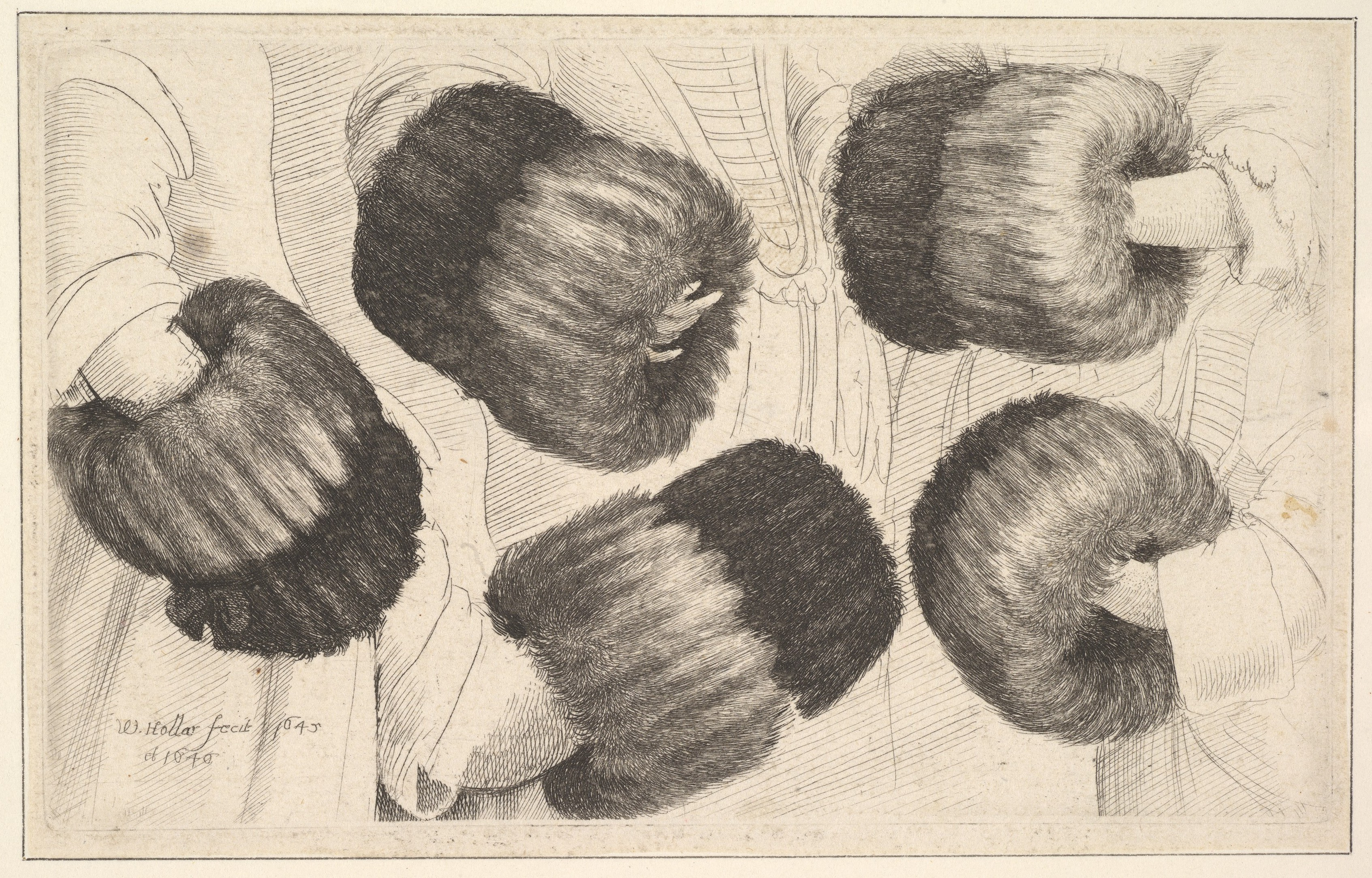 Print; Prints